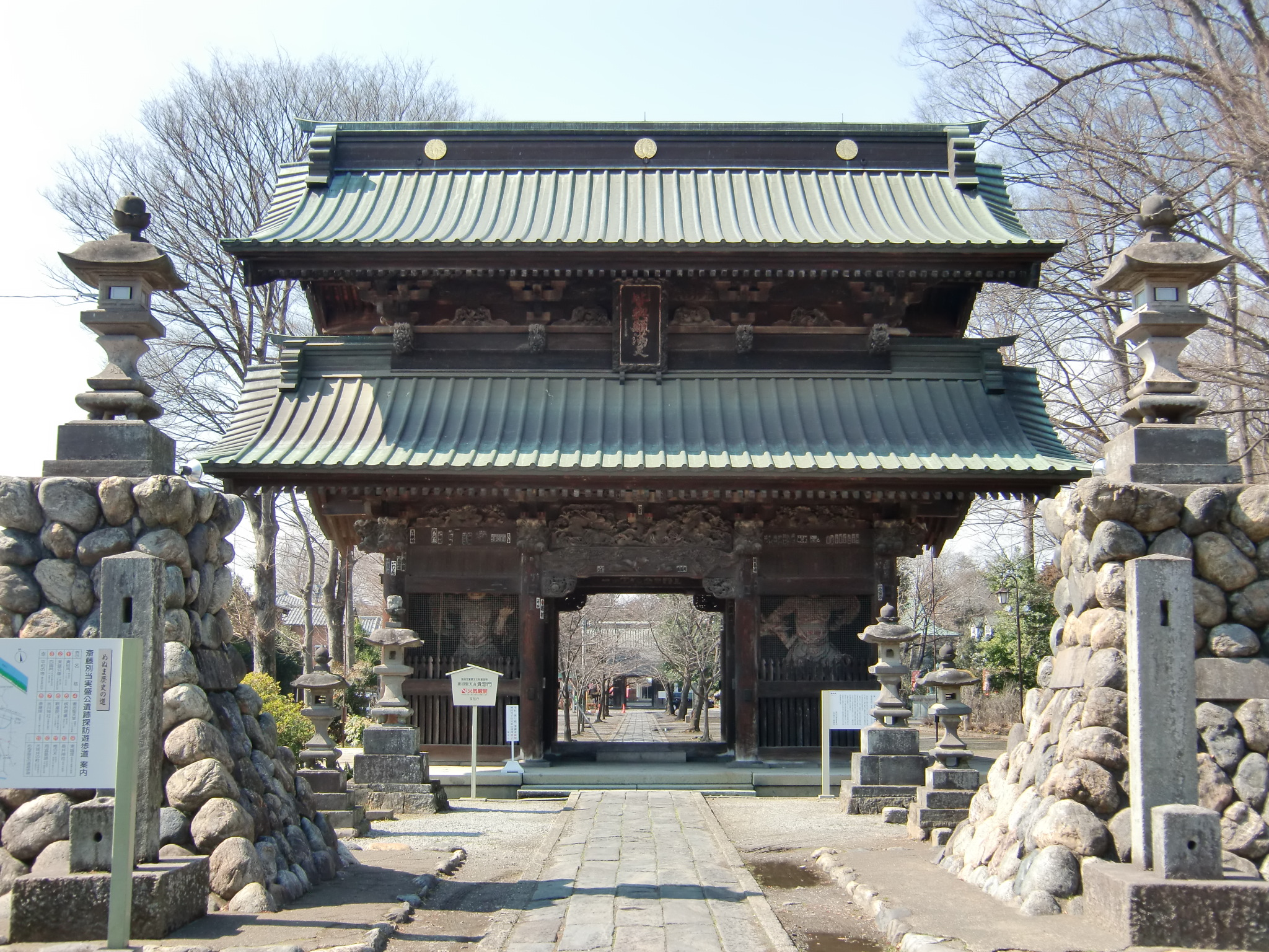 Kisō-mon gate of Kangi-in temple (Menuma Shōden) in Kumagaya, Saitama Prefecture